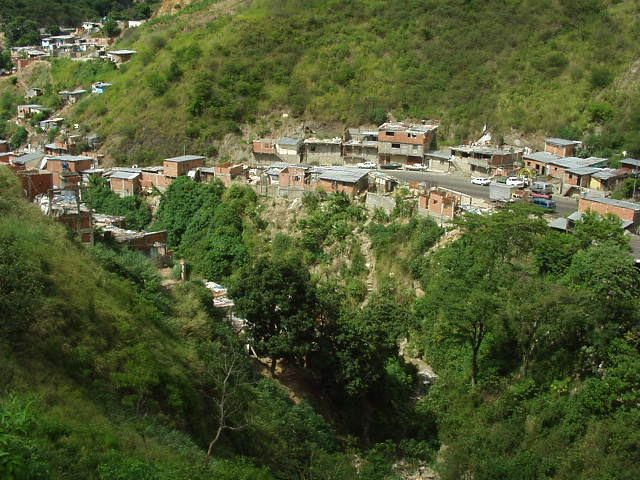 Houses along with the Tacagua River. Libertador Municipality, Capital District (Caracas), Venezuela. Casas al lado de la Quebrada Tacagua. Municipio Libertador, Distrito Capital (Caracas, Venezuela.